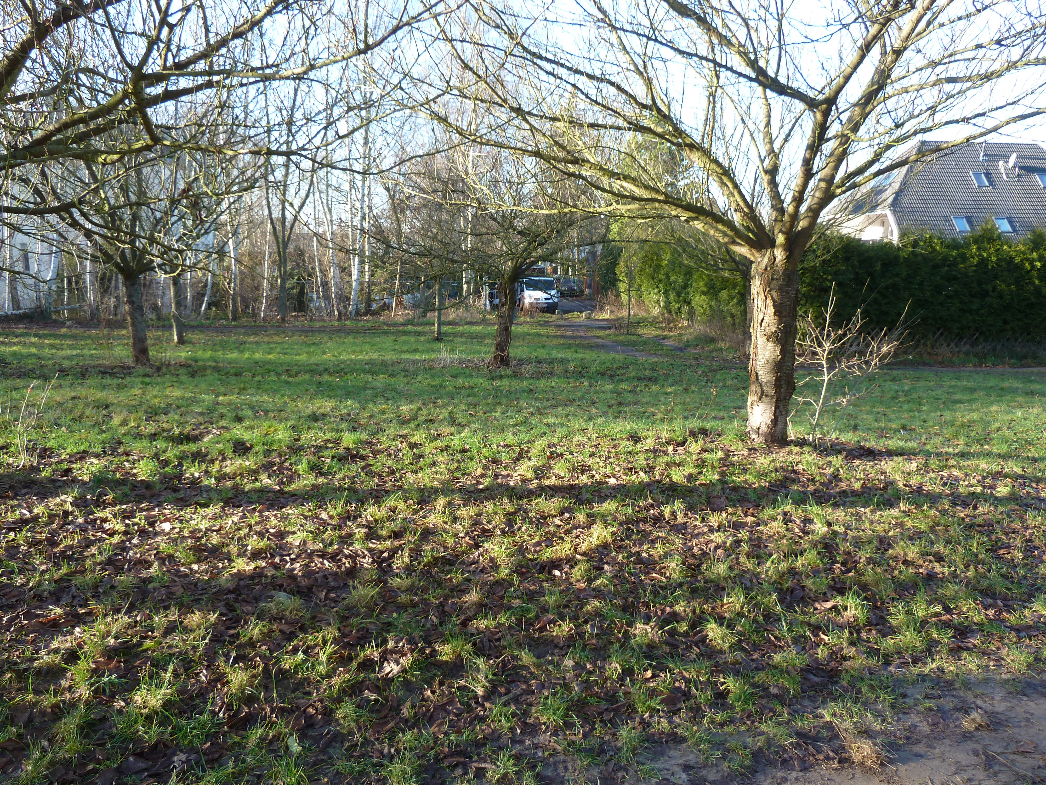 Standing on the border of Lichterfelde-Süd, Berlin, and Teltow. Standing east of Lessingstraße in Teltow, and facing west, looking at Lessingstraße, Lessingstraße is the street where Robert DeBrake was shot.